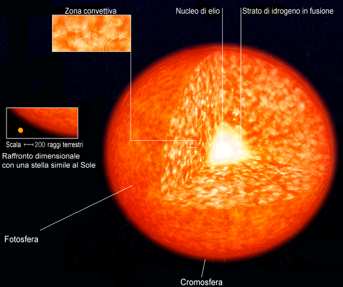 Section of image Image:Solar-type Red Giant structure it.jpg